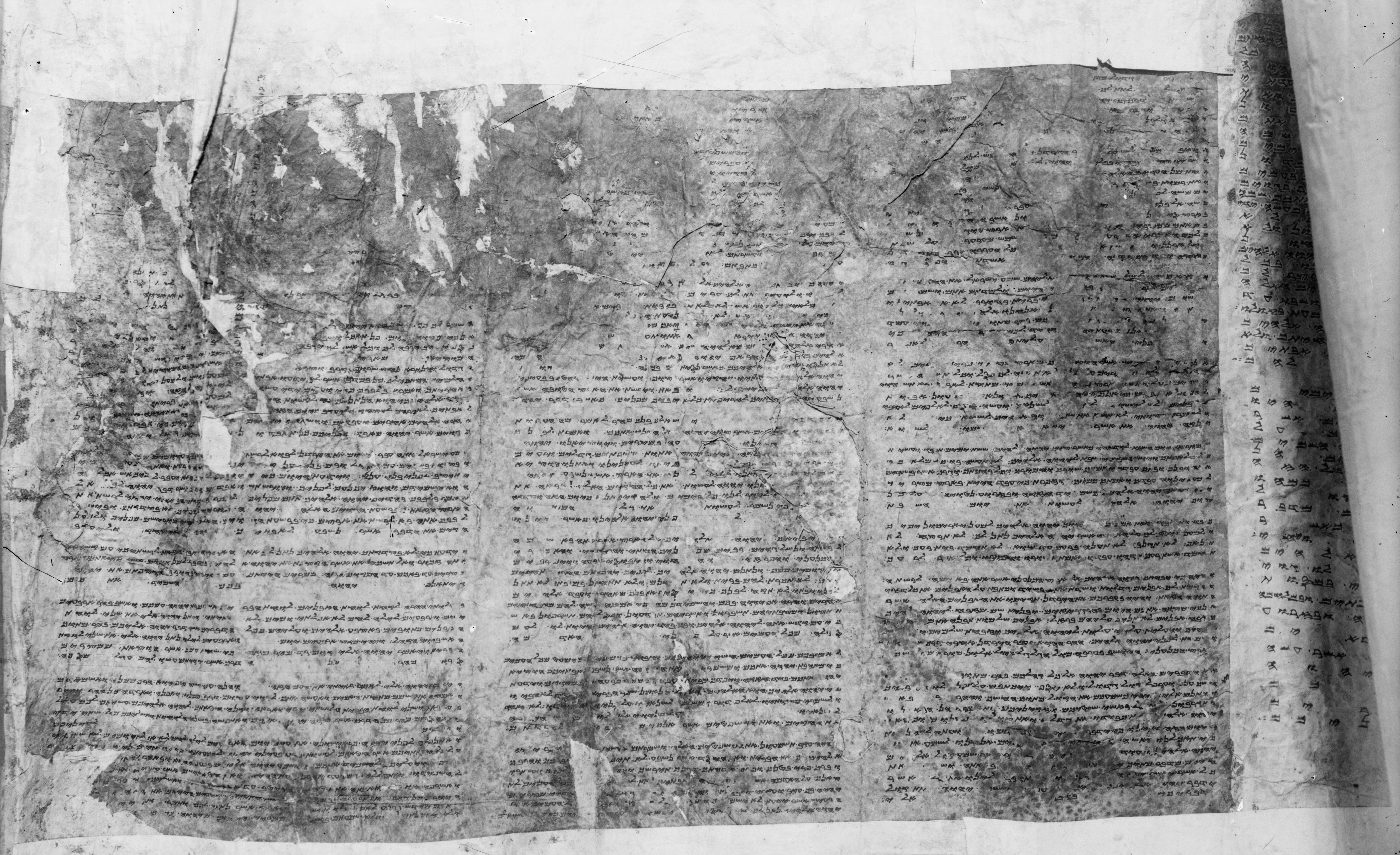 The Samaritans of Nablus (Shechhem). Details of the oldest scroll.